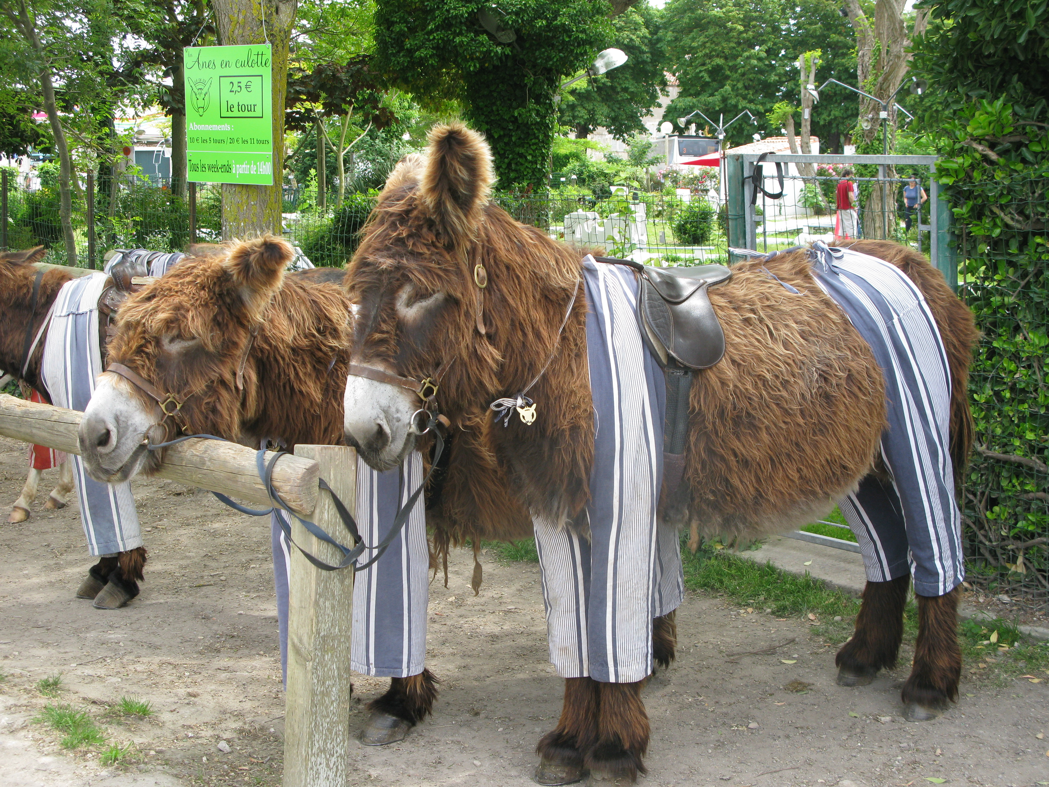 Two Poitou donkeys (Equus asinus) wear trousers, in Saint-Martin-de-Ré.